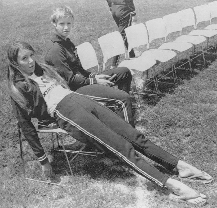 LG11 1972 Wire Photo LYNN SKRIFVARS MARY MONTGOMERY Munich Germany Olympics